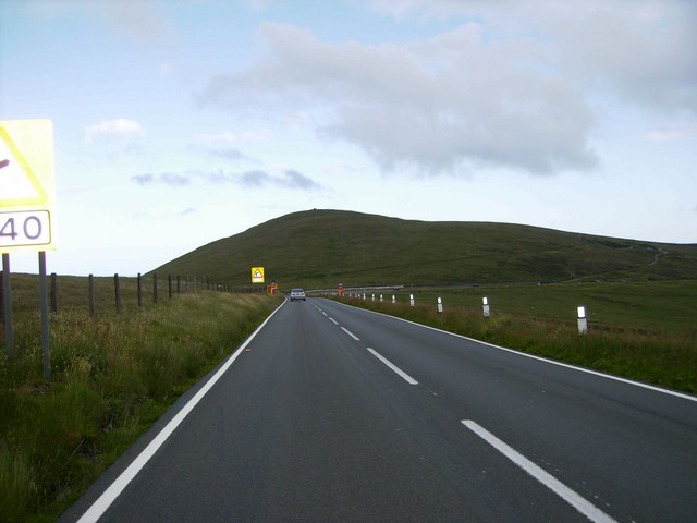 On the A18 Isle of Man Mountain Road - also the TT Course Photo shows the downhill road section approaching Windy Corner.